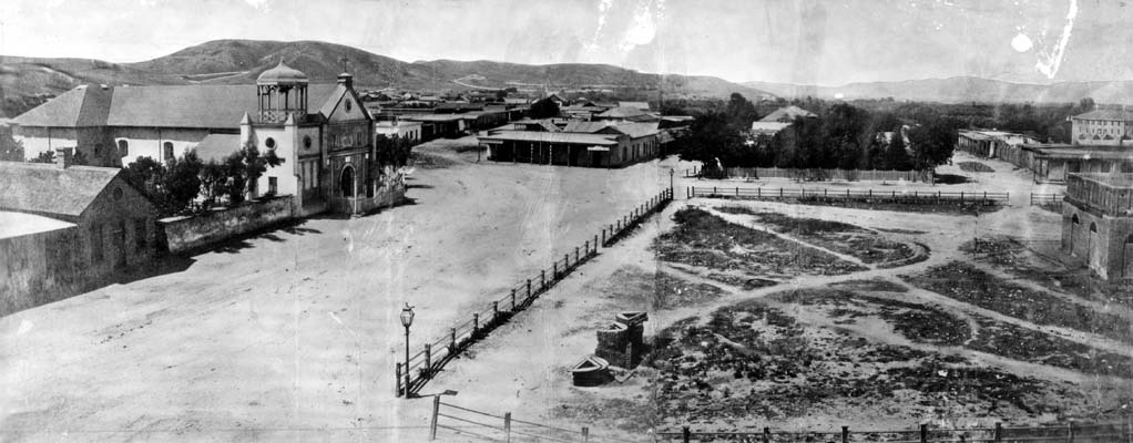 Dating from the era of the Pueblo de Los Angeles, The Plaza and "Old Plaza Church" (Mission Nuestra Señora Reina de los Angeles) in 1869. There is a square main brick reservoir in the middle of the Plaza at the right, which was the terminus of the town's historic lifeline: the Zanja Madre. The Plaza itself was rounded and turned into a traditional ornate plaza, with a fountain that later became a bandstand. The building in the top right background was the Lugo House: first home to St. Vincent's College (now Loyola Marymount University). They are now a part of Olvera Street.